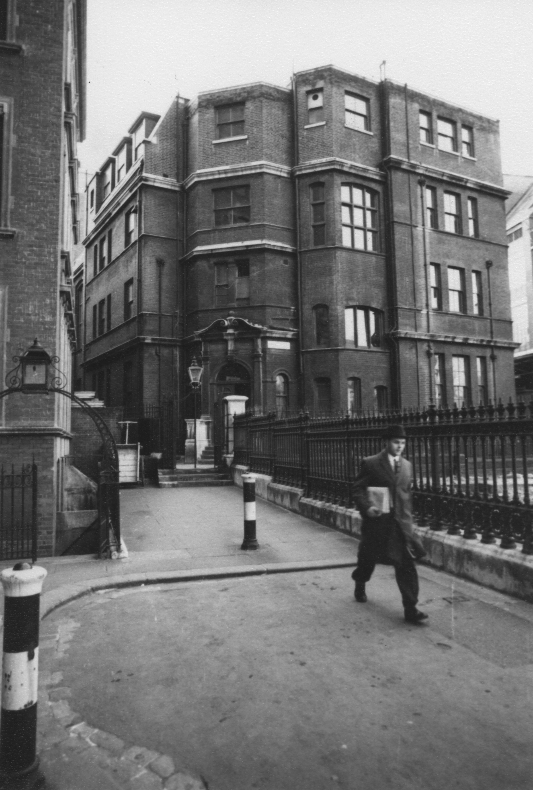 Clements Inn Passage IMAGELIBRARY/26 Persistent URL